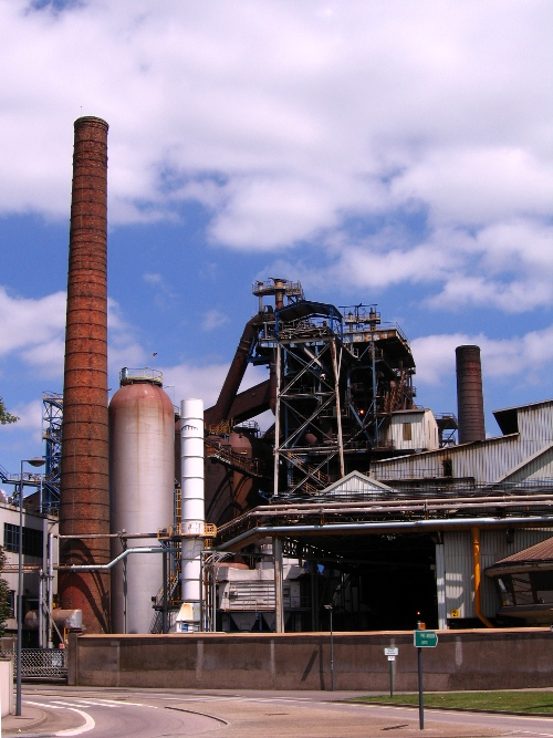 Blast furnace, Saint-Gobain group, Pont-à-Mousson